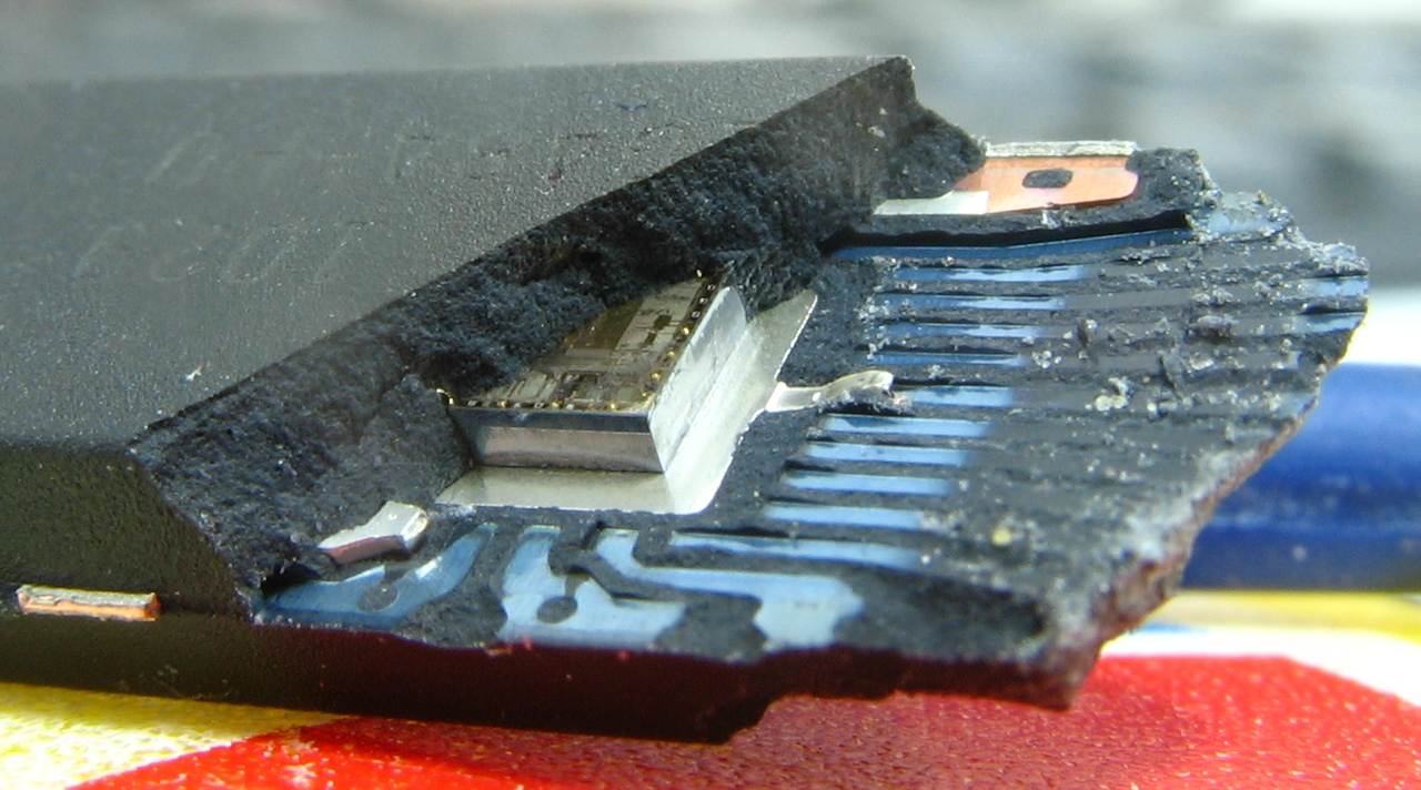 Atmel ATmega8 disassembled